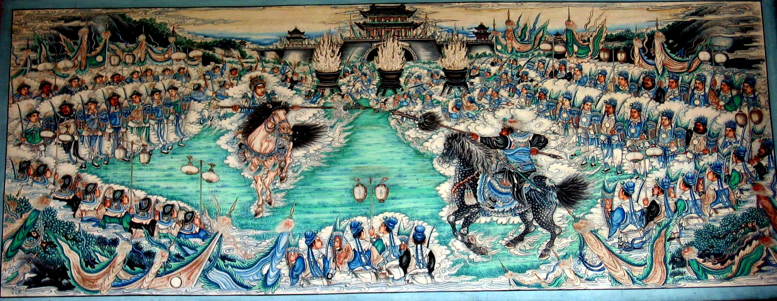 Photograph of the painting "Zhang Fei's Fight with Ma Chao" inside the Long Corridor on the grounds of the Summer Palace in Beijing, China. Photograph taken on April 17, 2005 by Rolf Müller.